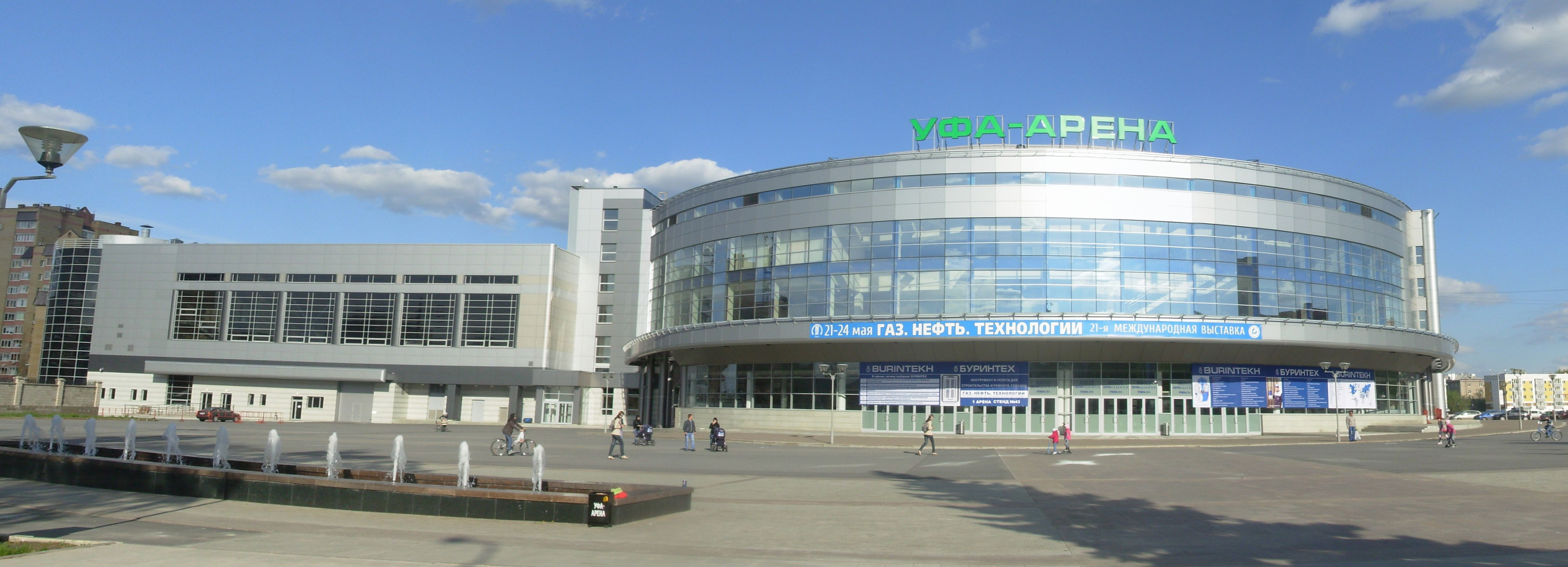 Sport Ufa